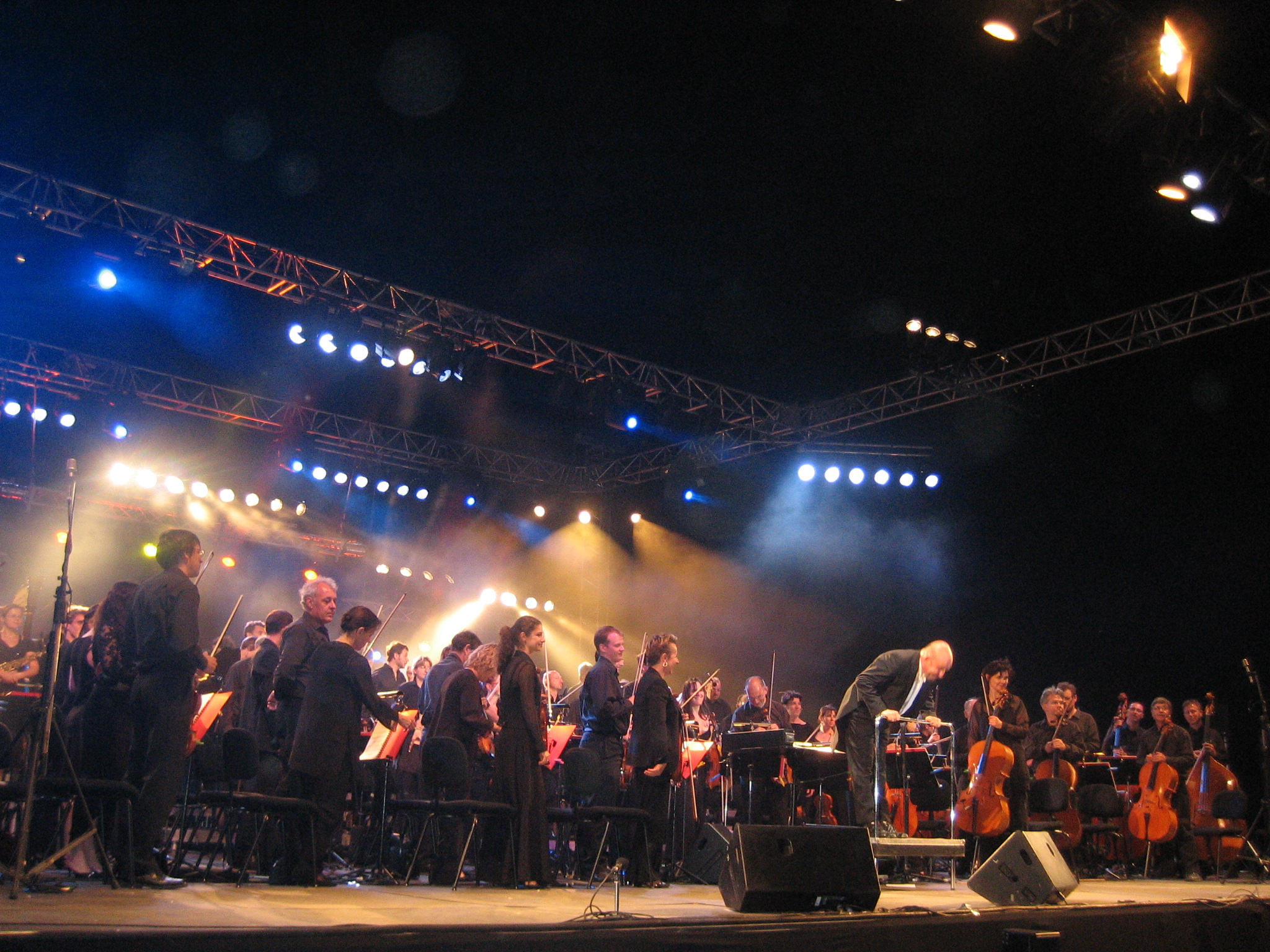 Symphonie des deux rives @ Strasbourg (2006)